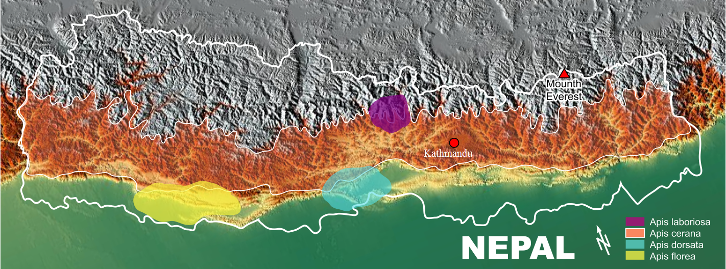 Nepal distribution map of Apis laboriosa, a specie of honey bee.